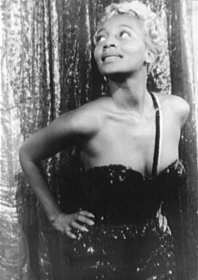 Portrait of Joyce Bryant